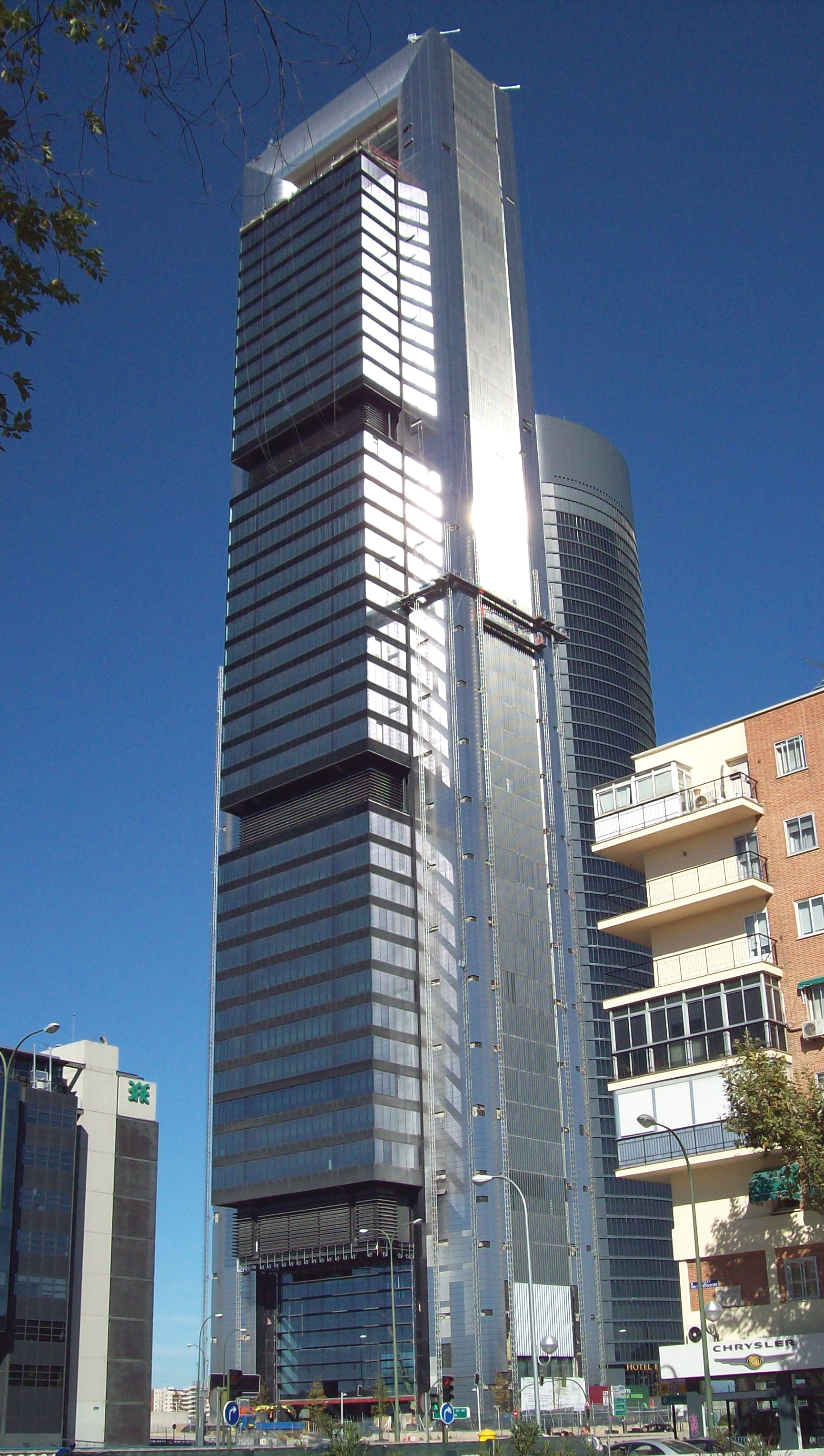 View of Torre Caja Madrid (in Cuatro Torres Business Area, Madrid, Spain) from Paseo de la Castellana (avenue).